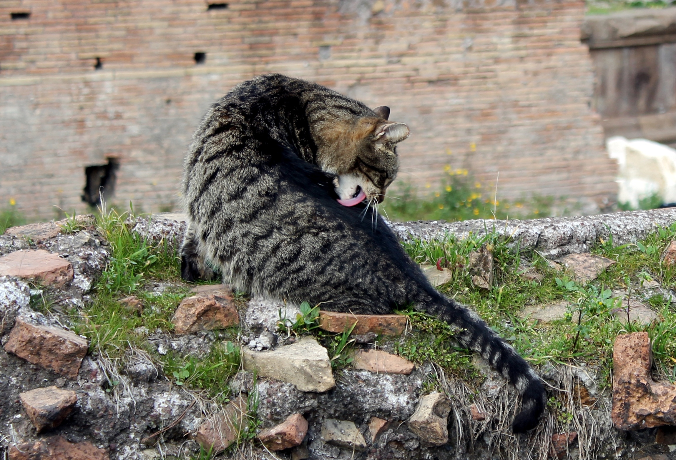 Licking Cat (European Shorthair) in Largo di Torre Argentina, Rome